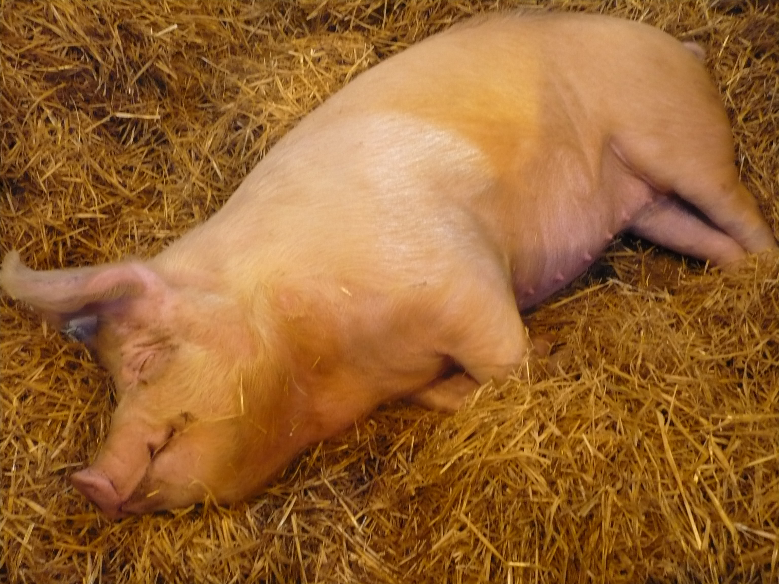 Photos prises lors du Salon international de l'Agriculture 2008 truie "large white" / "large white" sow